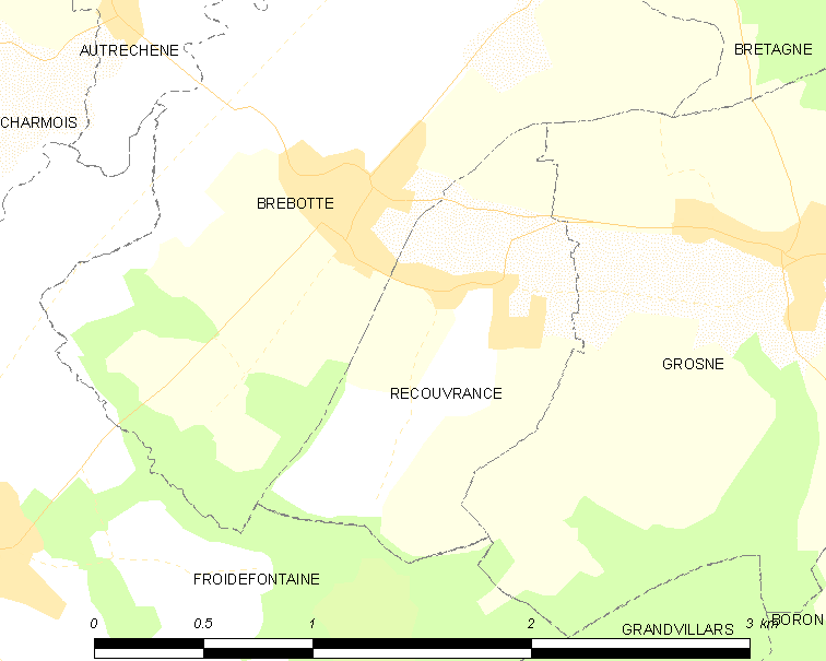 Map of French municipality Recouvrance